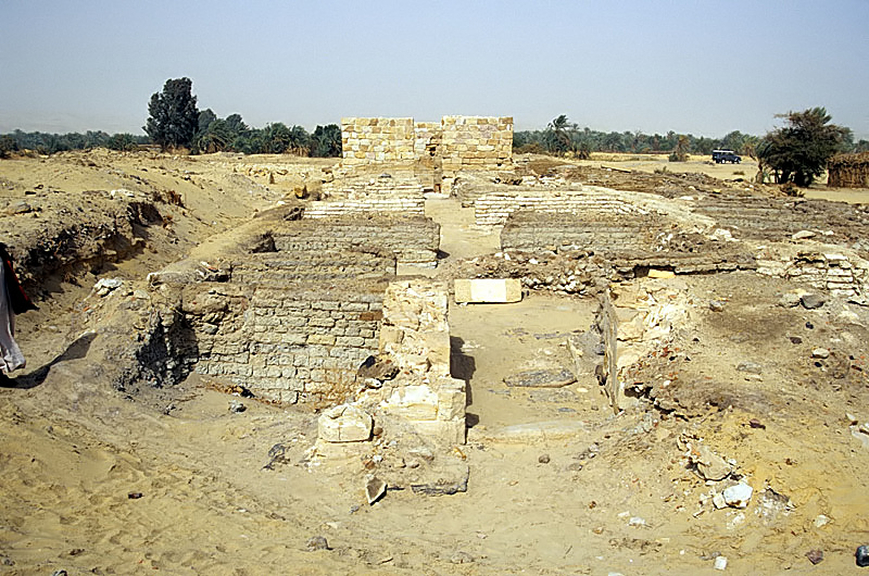 Temple of Alexander the Great at 'Ain el-Tibniya (Qasr el-Megysbah), el-Bahriya depression, Libyan desert, Egypt